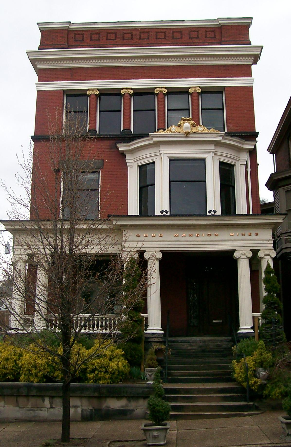 The L.S. Good House at 95 14th Street in Wheeling, West Virginia. Pictured is the southern facade. The house was placed on the NRHP. Taken 2010-03-28.